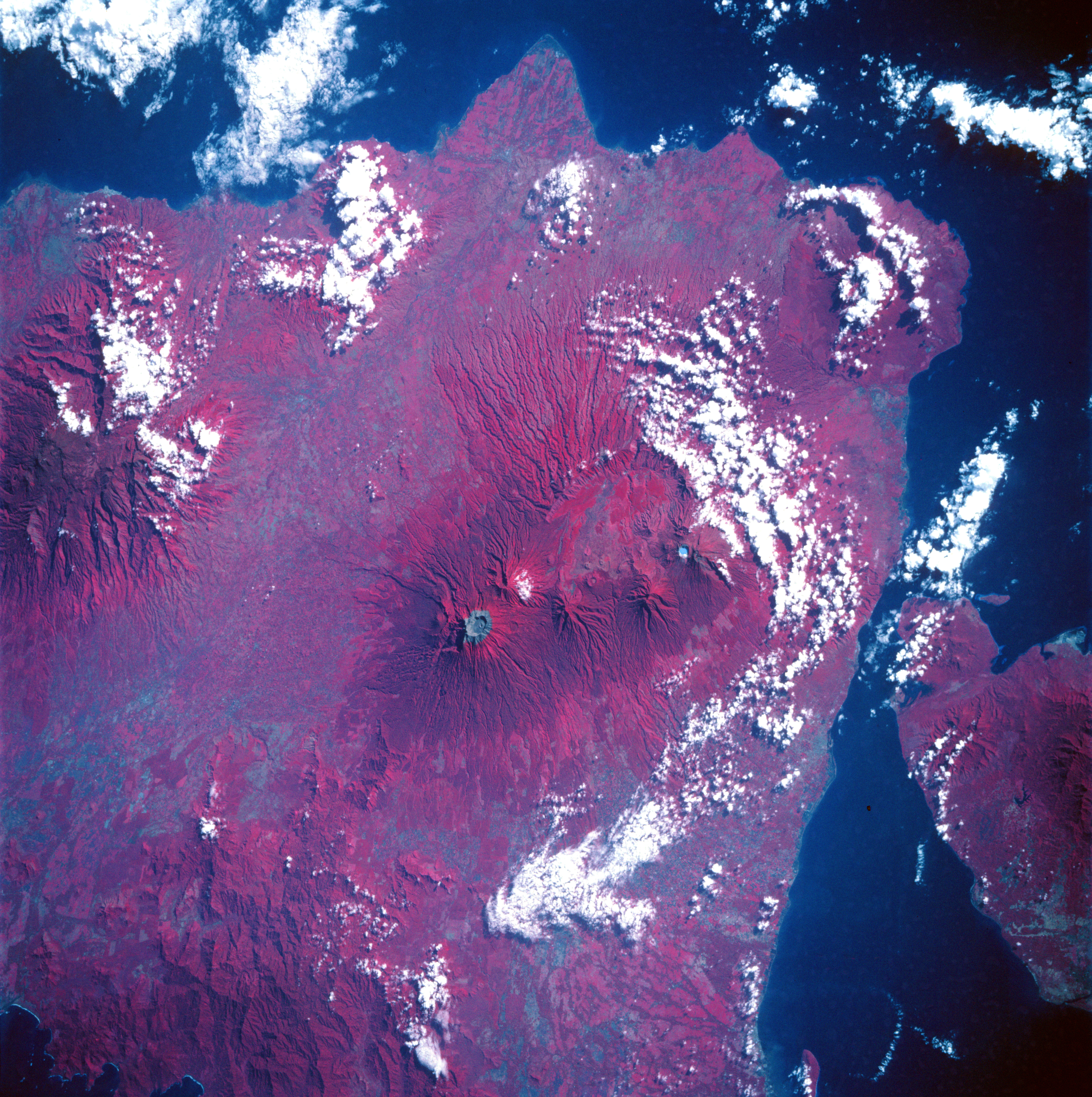 Raung Mountain, Indonesia The Idjen volcanic plateau on the eastern end of the island of Java (Jawa) appears in this near-vertical color infrared photograph. Impressive Raung Volcano, pinpointed near the center of this photograph, has a very wide caldera surrounded by a grayish rim. The difference in color of the rim and the flanks of the volcanoes is caused by the rim’s lack of vegetation compared with the healthy and extensive vegetation on the flanks. Raung, standing almost 11 000 feet (3300 meters) above sea level, is the tallest volcano of this cluster. A well-defined radial drainage pattern emanating from the many volcanic peaks helps identify individual volcanoes. Although the valleys between the major volcanoes boast fertile, ash-enriched soil for agriculture, available land is very limited. The relatively small island of Java has approximately 110 million people, 60 percent of the entire Indonesian population. East across the Strait of Bali lies the western end of the island of Bali.